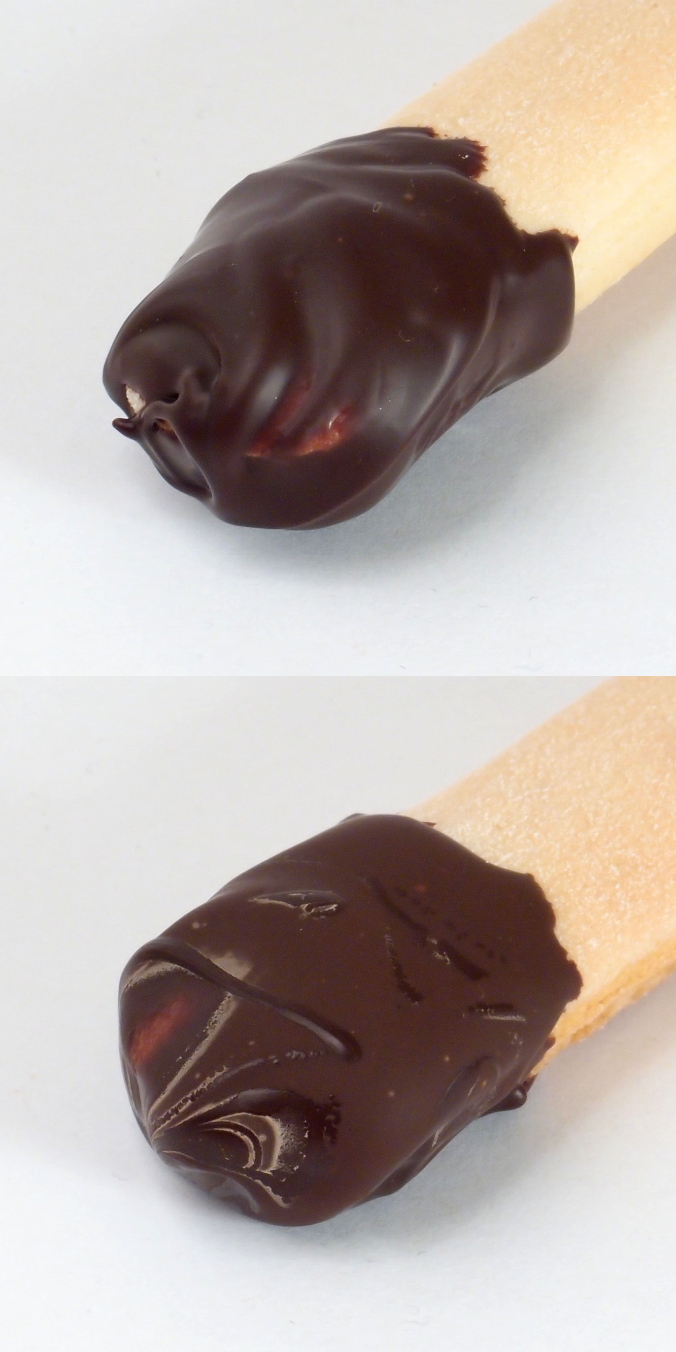 Two samples of dark (55 % cocoa) couverture chocolate applied to ladyfinger biscuits. The upper sample was properly tempered and has a shiny finish. The lower sample was not tempered but rather applied immediately after melting at a temperature of about 40 °C, has a dull finish and displays grey fat bloom.